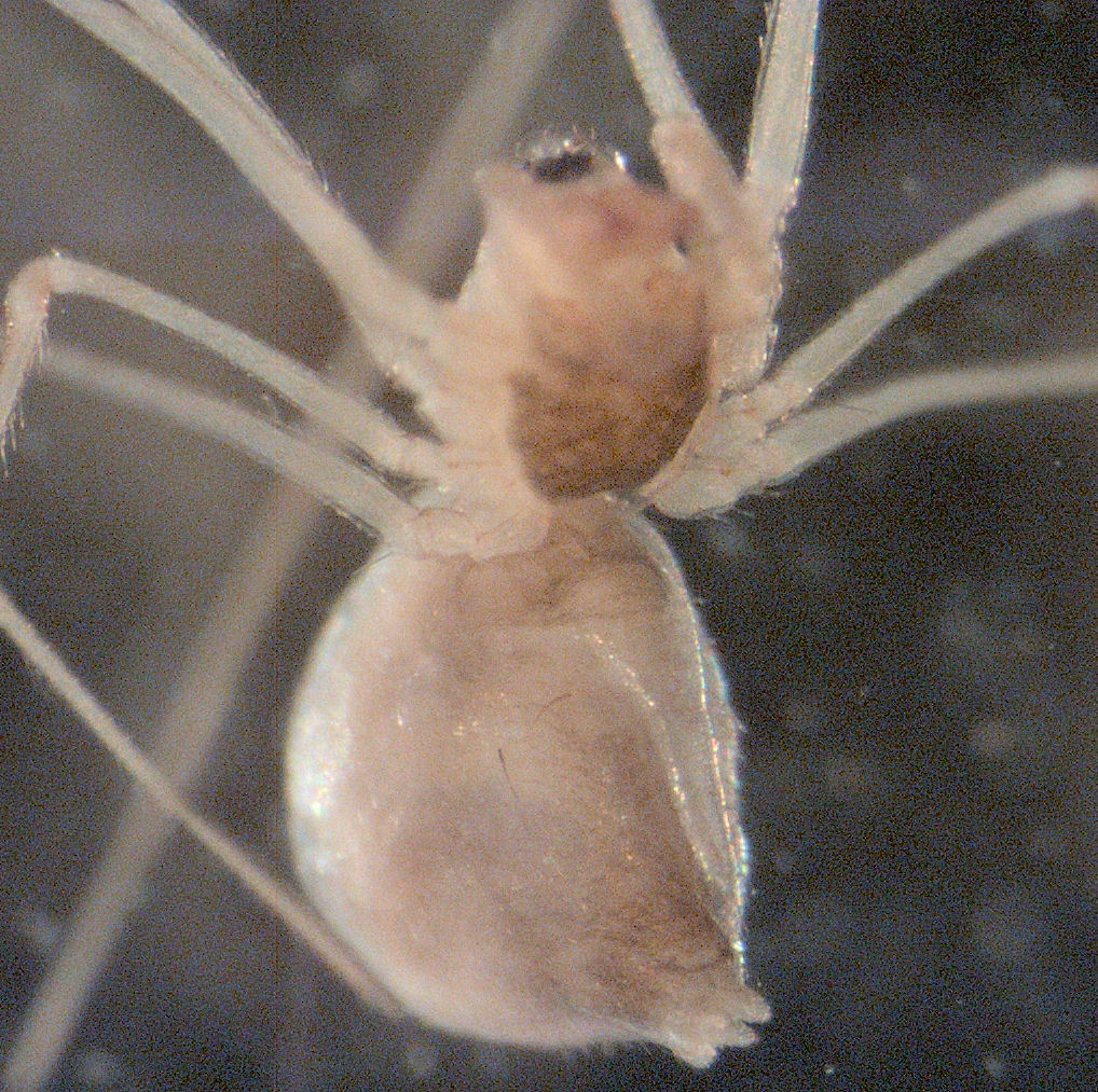 female Pahoroides aucklandica